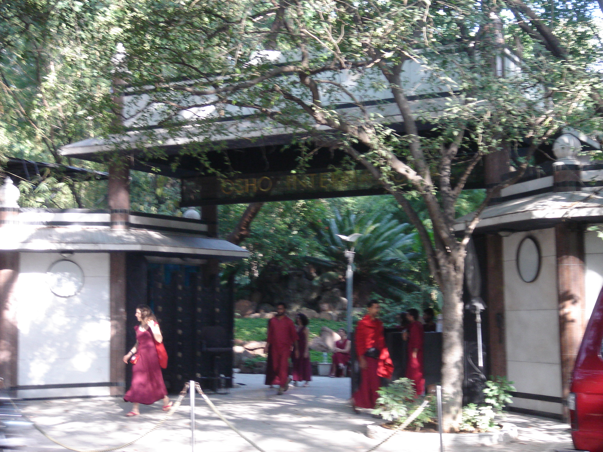 Osho center, Pune, India